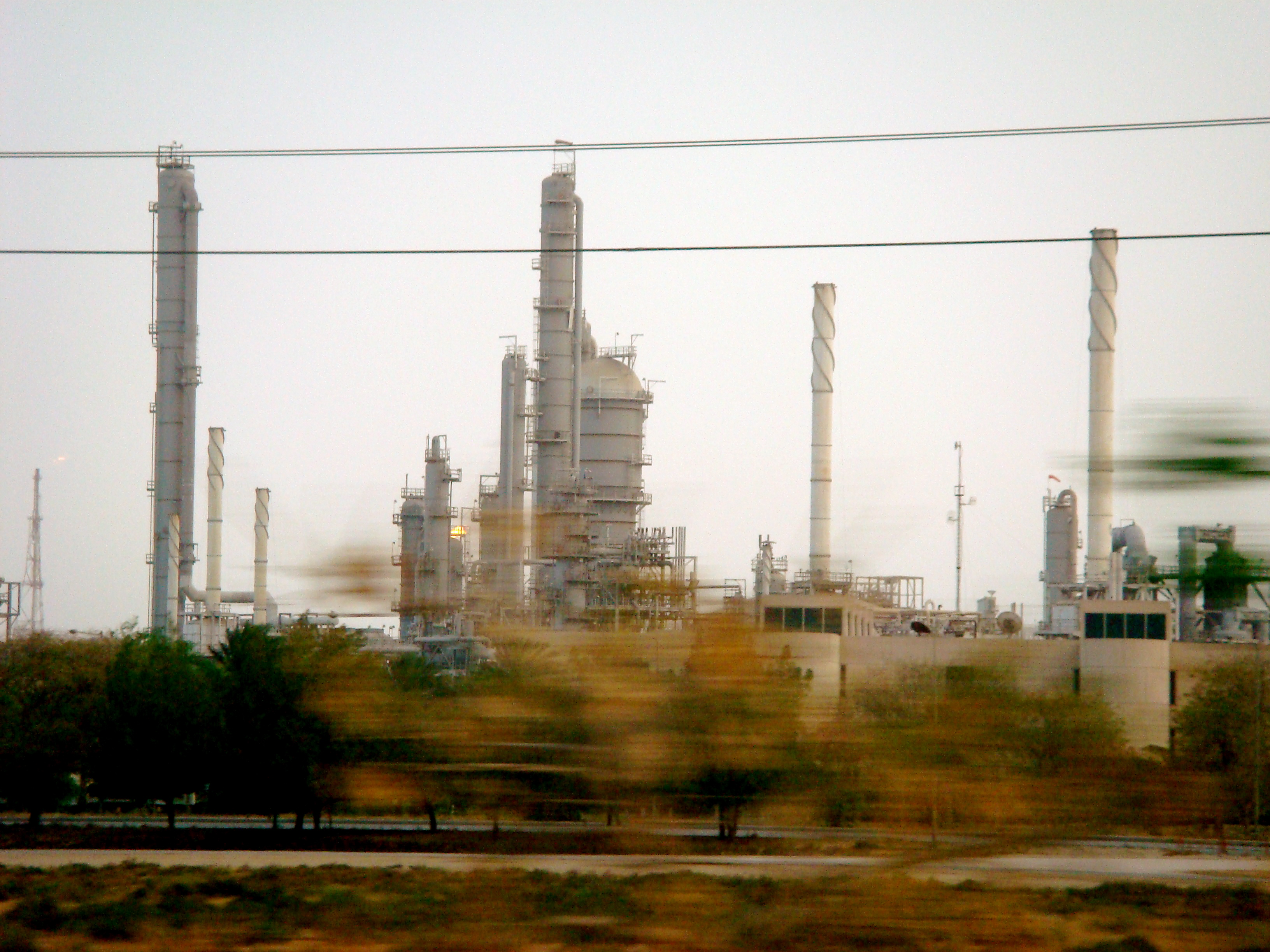 these al jubail photos are pretty lame.